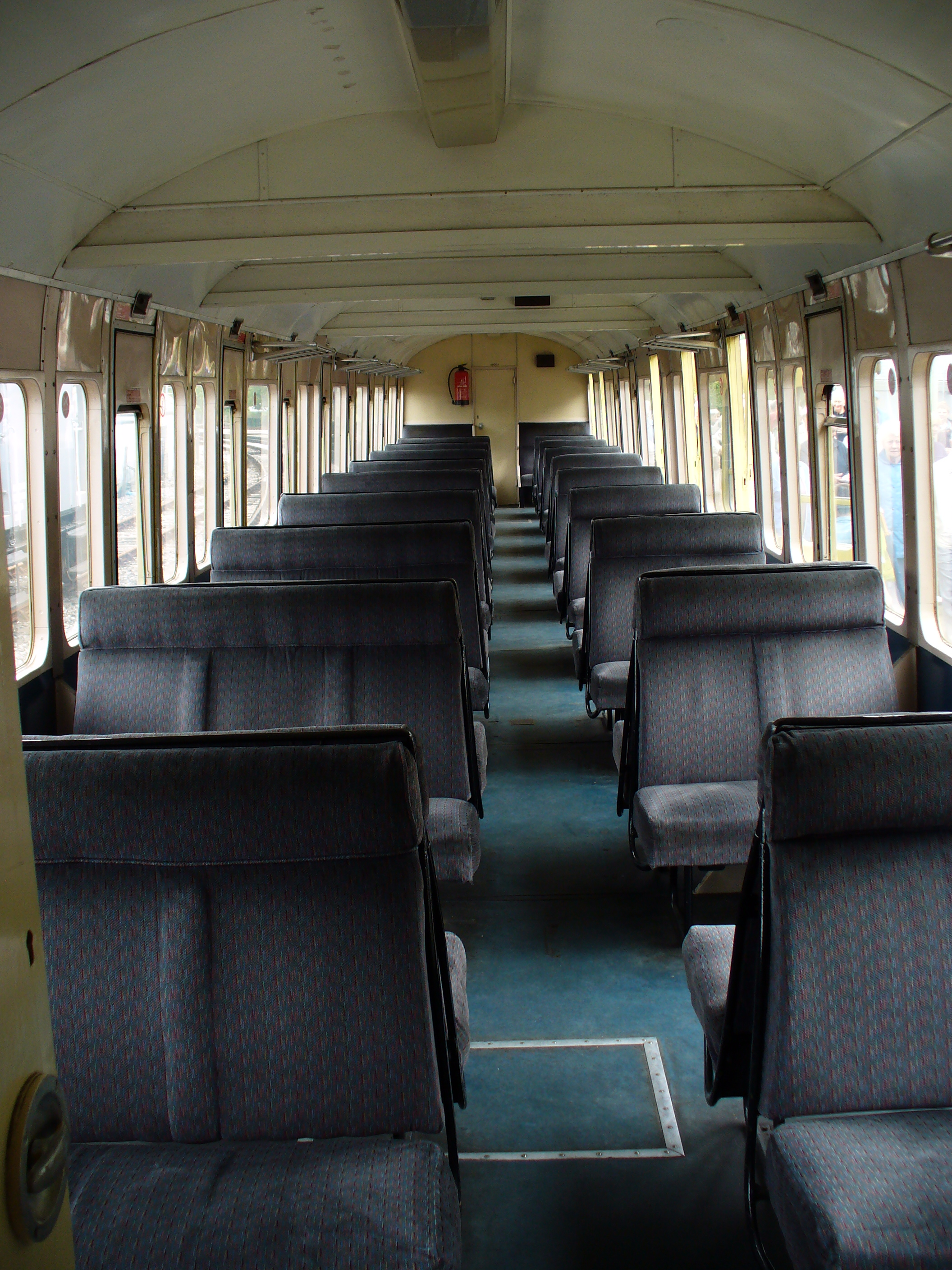 A Class 116/117 DMU open coach. These coaches are mainly used on peak season timetables in conjuction with BR Mk 1 coaches.